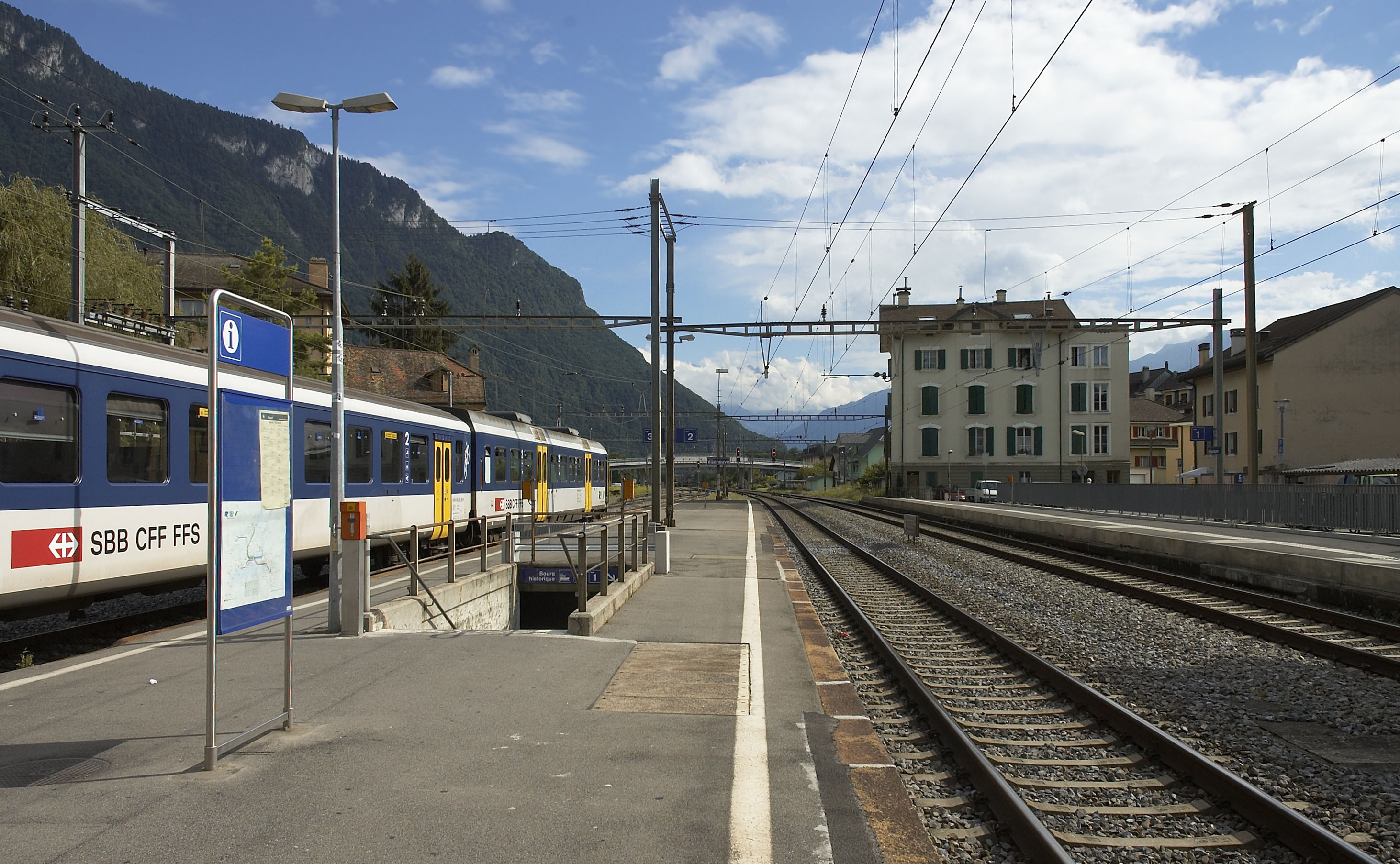 Train station in Villeneuve (Vaud) in Switzerland